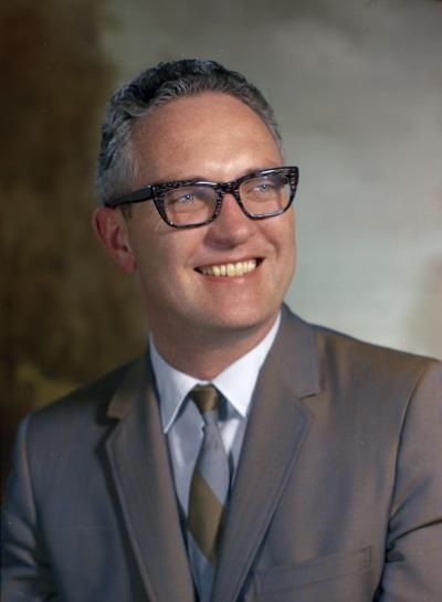 Representative John S. Murray